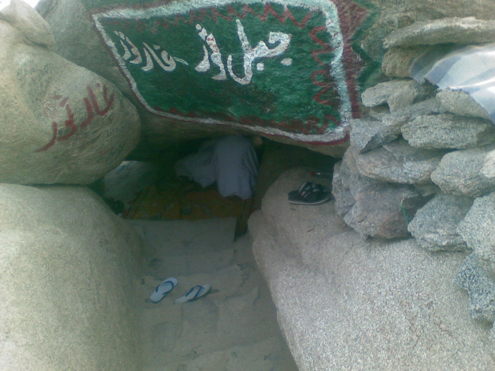 The sour cave, where Muhammed Nabi stayed on his way form Mekka to Madeena